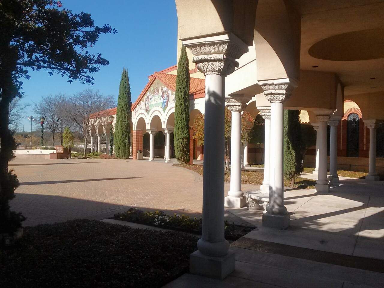 Holly Trinity greek orthodox church, in north Dallas